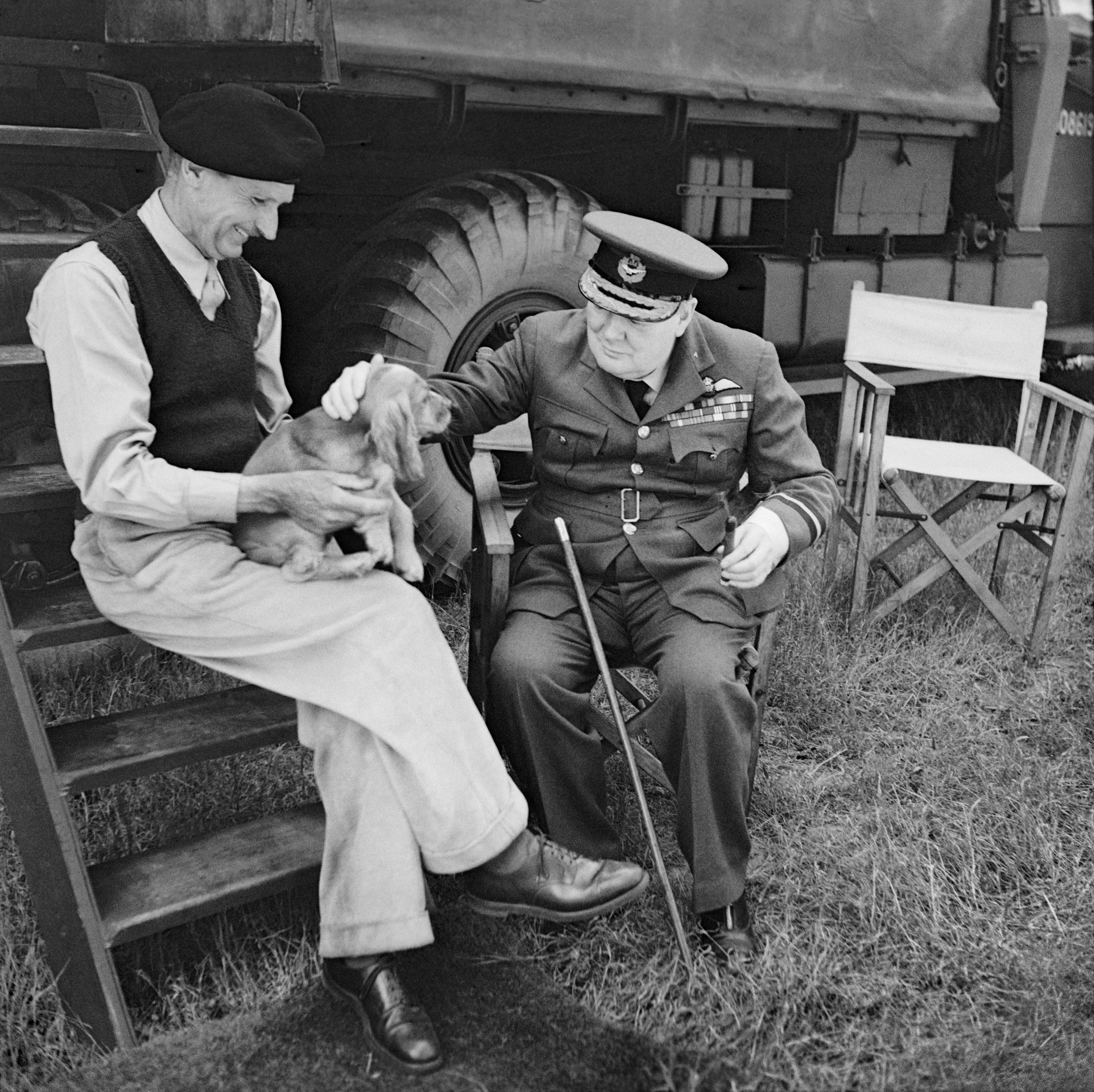 Winston Churchill Visits Normandy, August 1944 Prime Minister Winston Churchill and General Sir Bernard Montgomery & his dog (named Rommel) in Normandy at Montgomery's caravan at his headquarters at Chateau Creully, 7 August 1944